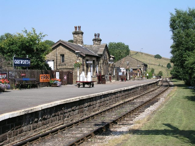 Oakworth Station, Keighley & Worth Valley Railway. Oakworth Station, on the Keighley & Worth Valley Railway, featured in the film "The Railway Children".